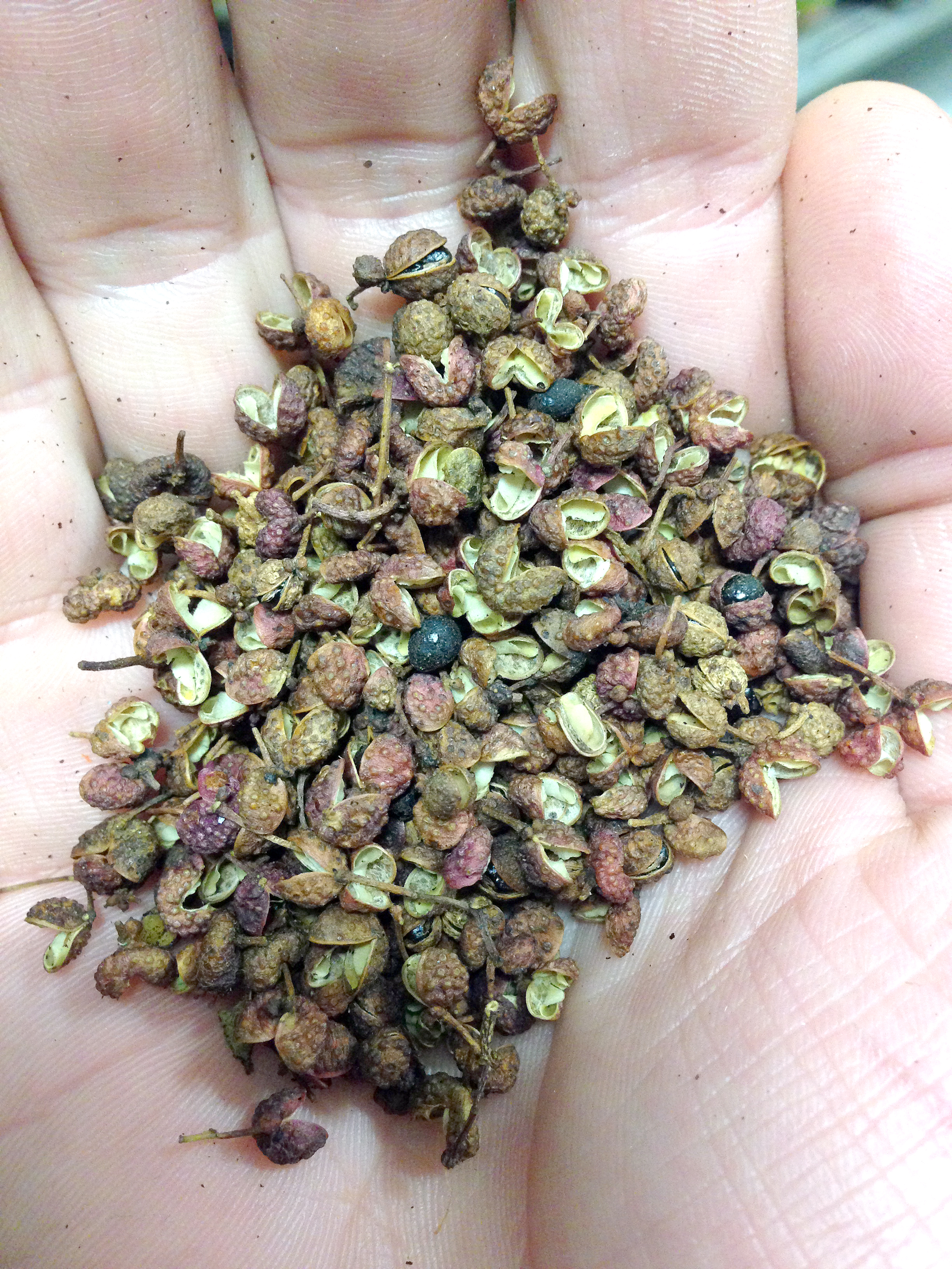 A handful of sechuan pepper, 2013